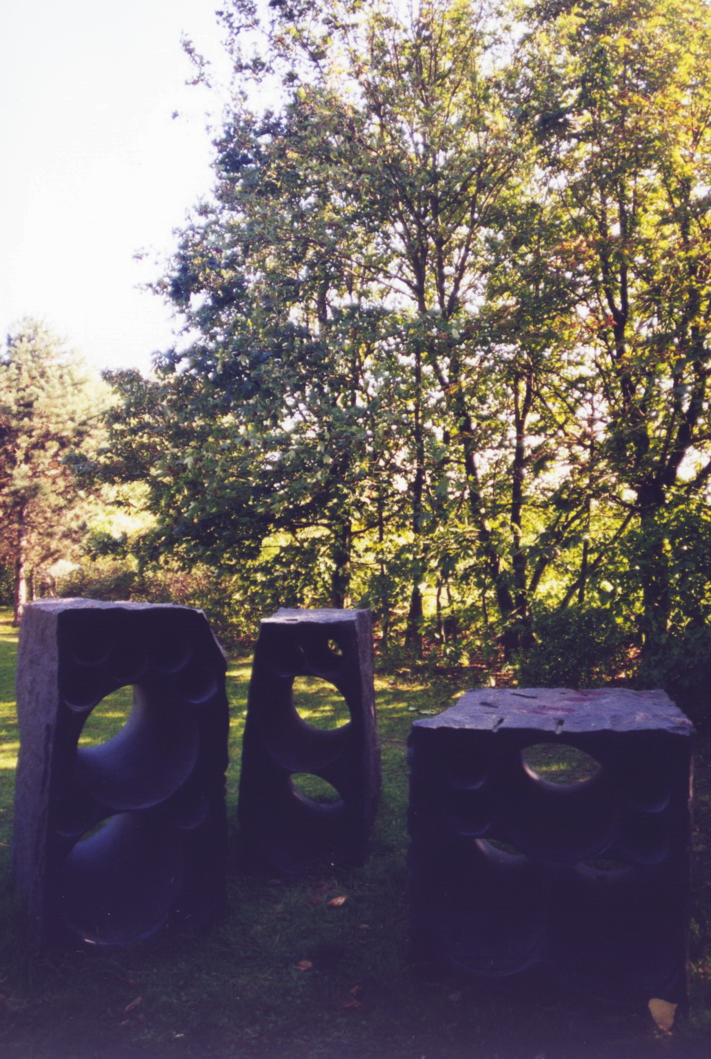 45 Specht, Susanne "Intermundiensteine", schwarzer Granit, 1998